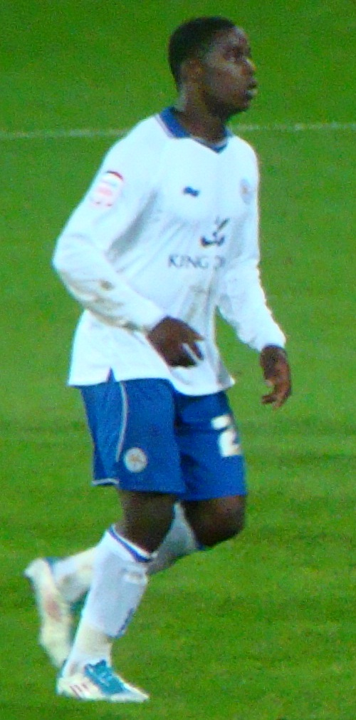 21/09/11 Cardiff V Leicester, Football League Cup, Cardiff City Stadium, Cardiff, Wales